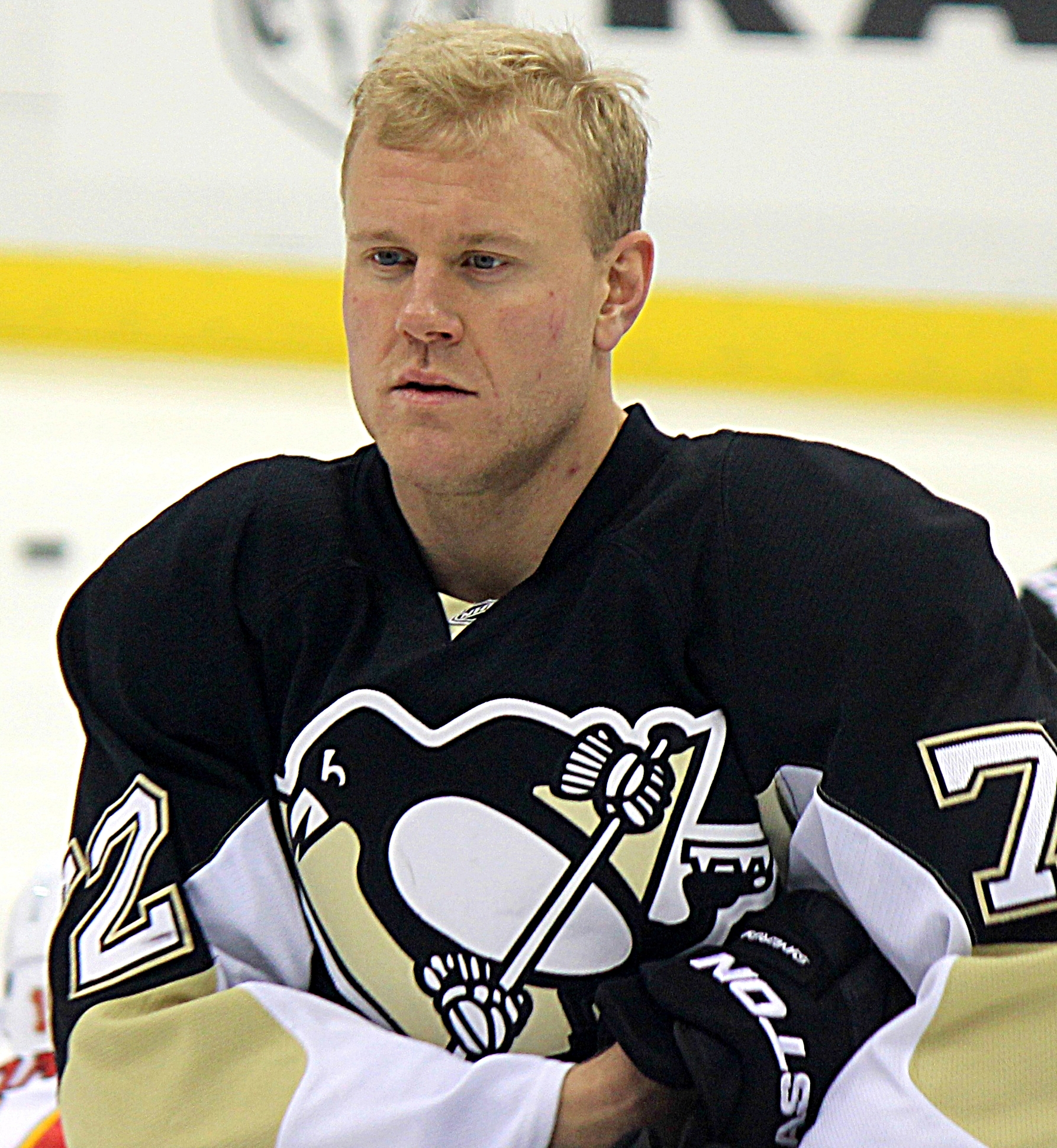 Pittsburgh Penguins forward Patric Hornqvist during a game against the Calgary Flames, December 12, 2014, at Consol Energy Center in Pittsburgh, PA.